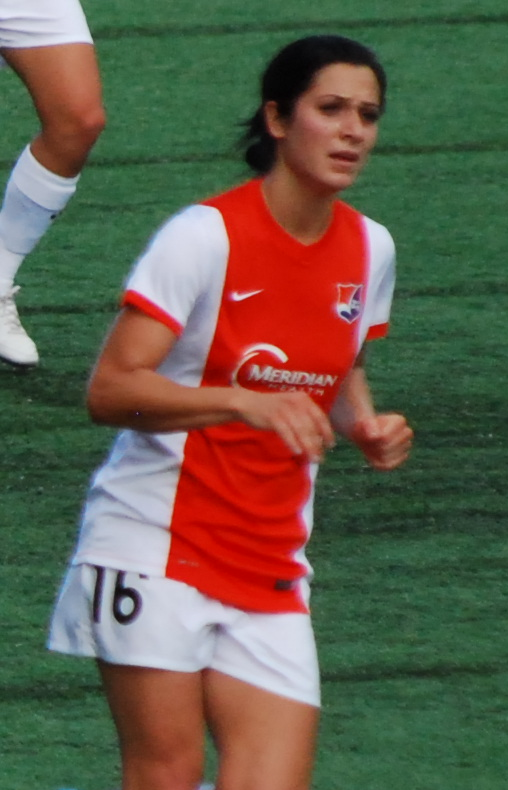 Seattle Reign FC vs Sky Blue FC Memorial Stadium, Seattle Center Seattle, WA June 28, 2014